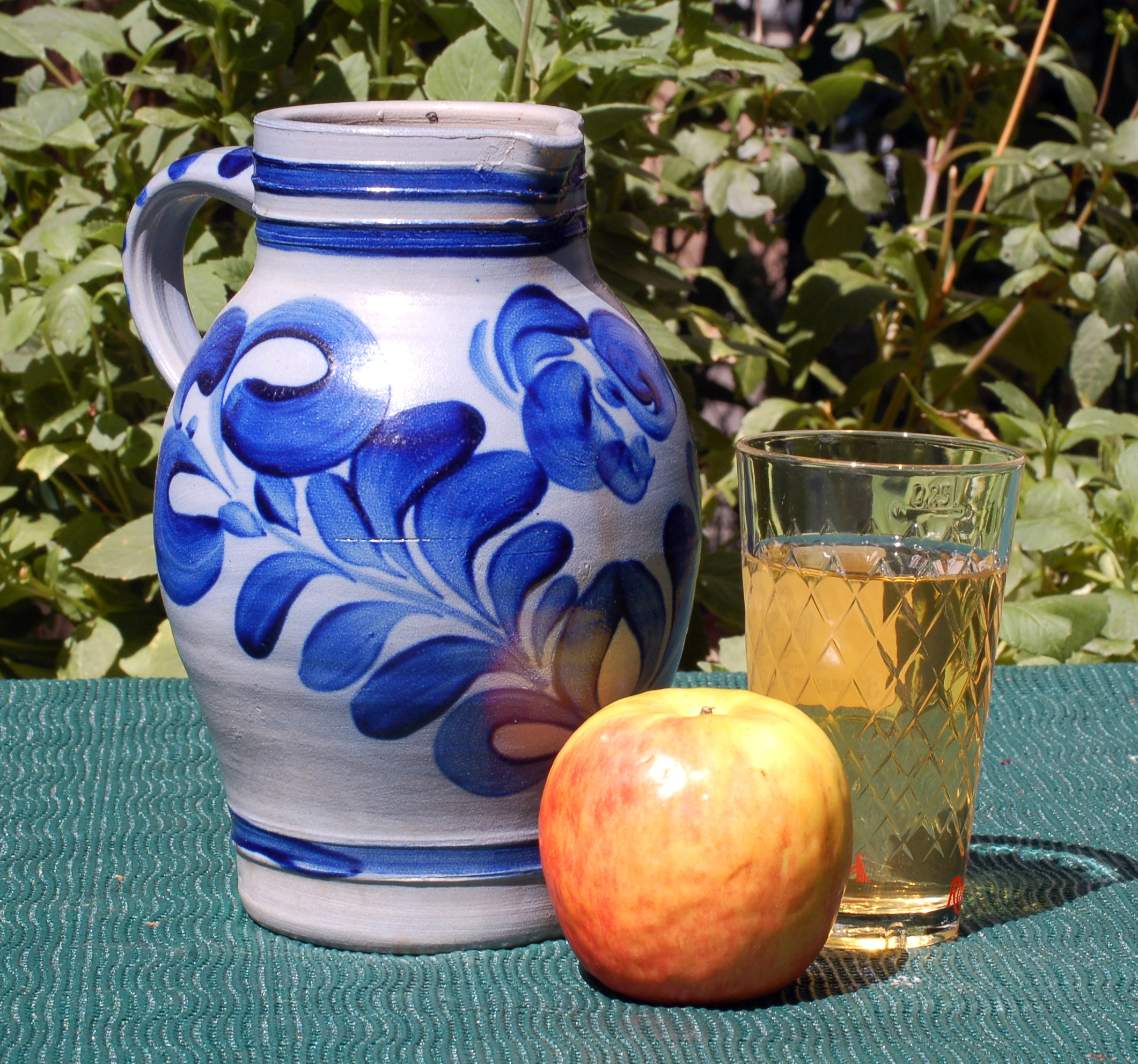 Cider à la Frankfurt — Pitcher and rhomb glass